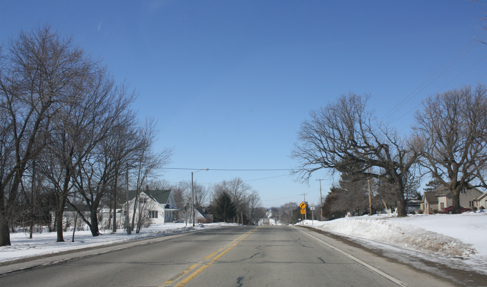 Looking west in downtown Manchester (community), Green Lake County, Wisconsin on Wisconsin Highway 44 / 73.